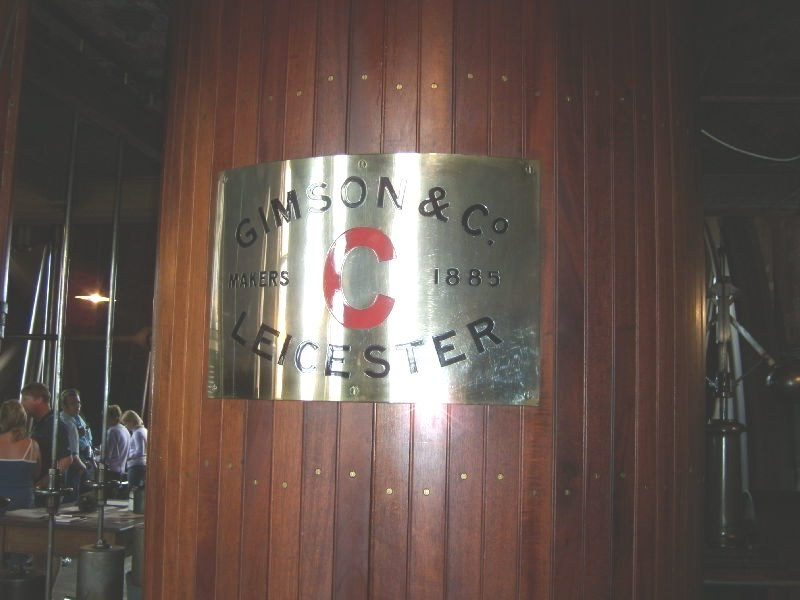 Gimsonofleicester claymills